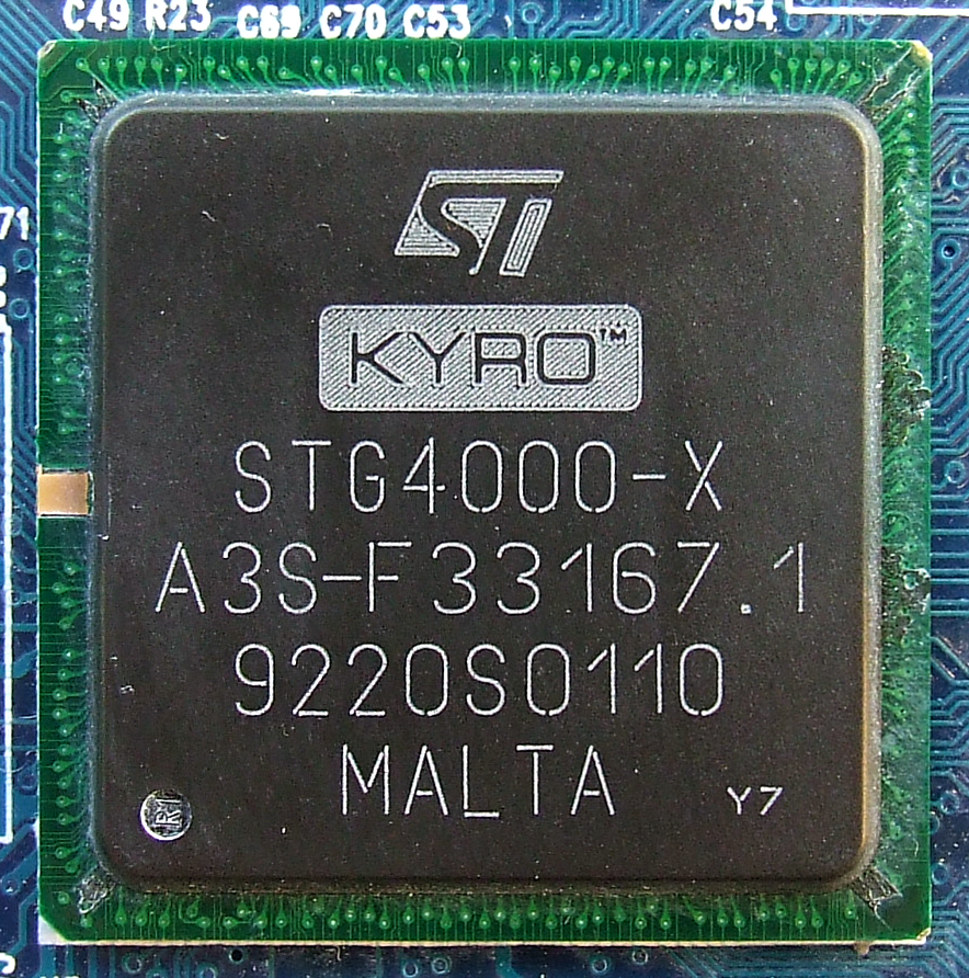 STMicroelectronics STG4000 "Kyro" graphics processing unit. This is the first release of the PowerVR Series3 family of GPUs.